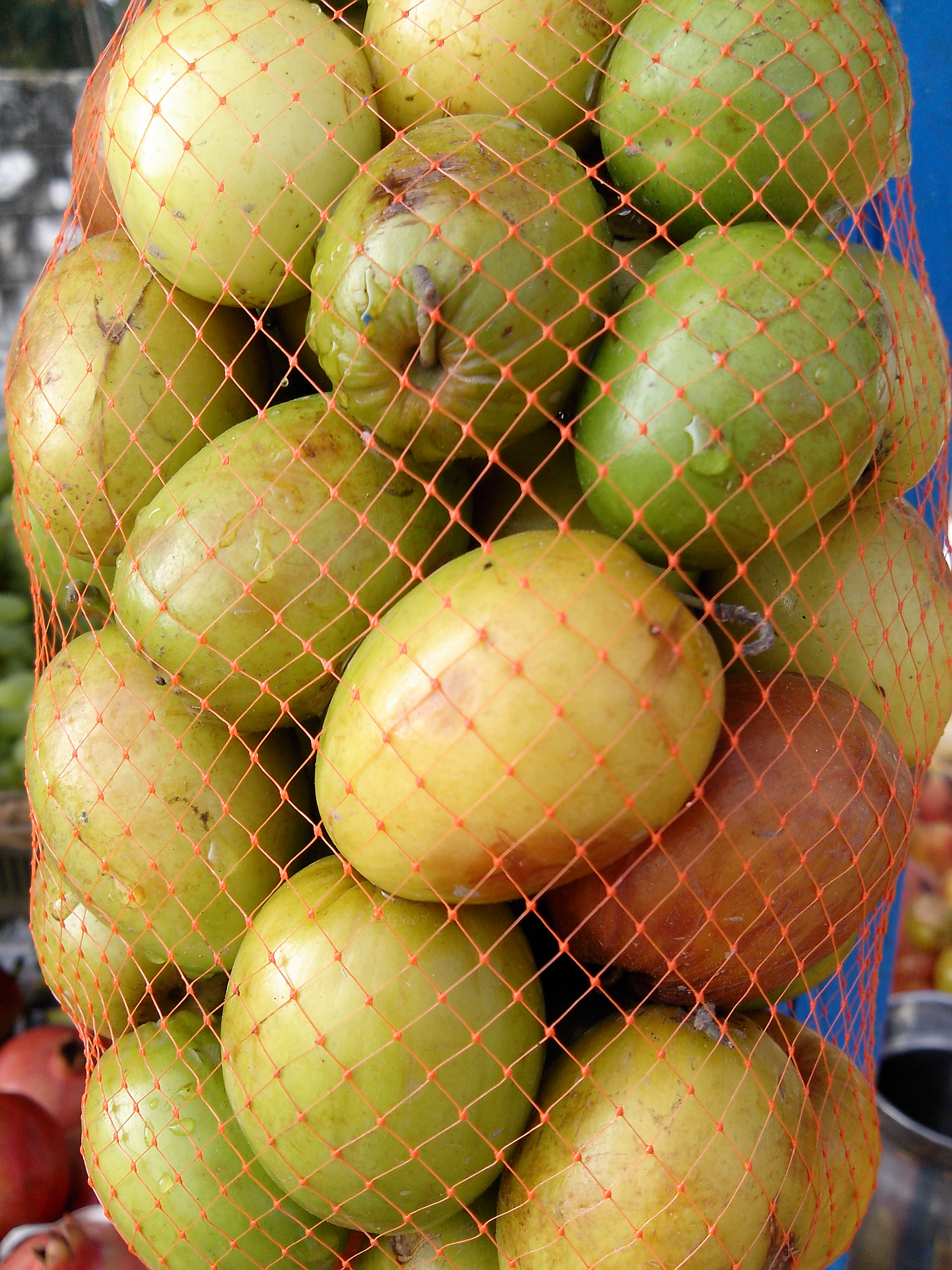 Ziziphus zizyphus,Tamil Nadu, India.